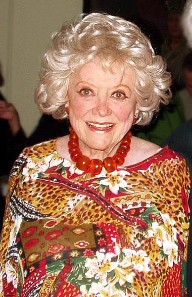 Phyllis Diller. Picture taken at the her home in Brentwood, Los Angeles, Southern California.